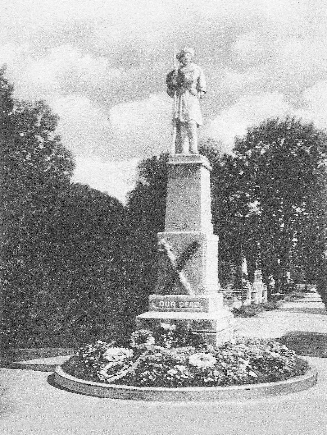 Confederate Monument, Cedar Grove Cemetery, New Bern, North Carolina. From PhC.184 Massengill Postcard Collection, initial donation, State Archives of North Carolina, Raleigh, NC.